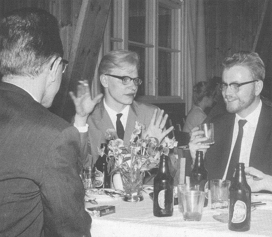 Photograph of the Finnish composer Erkki Salmenhaara (1941–2002) and Swedish Jan Bark (1934–2012) at Jyväskylän Kesä festival in 1963.